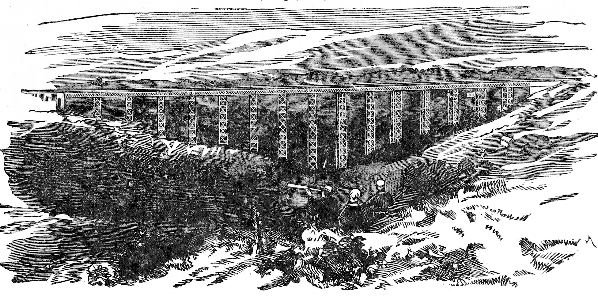 Belah Viaduct, Stainmore, South Durham & Lancashire Union Railway